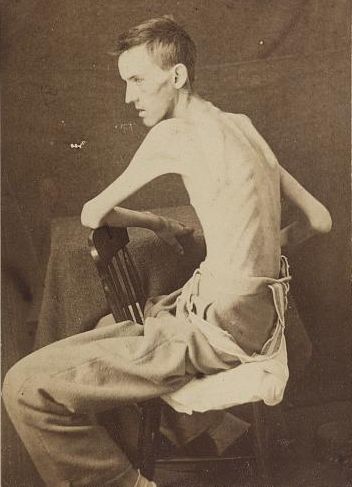 This is a cropped version of an image of 20-year-old Pvt. Jackson O. Broshears of the 65th Indiana Infantry taken after his release from the Confederate prison at Belle Isle, Va. He lost nearly 80 pounds as a prisoner and had been in a Union hospital for eight weeks at the time this picture was taken.